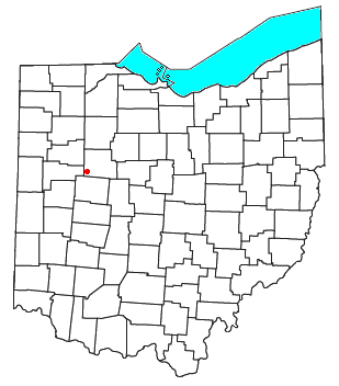 Locator map of the unincorporated community of Roundhead in Hardin County, Ohio, United States.